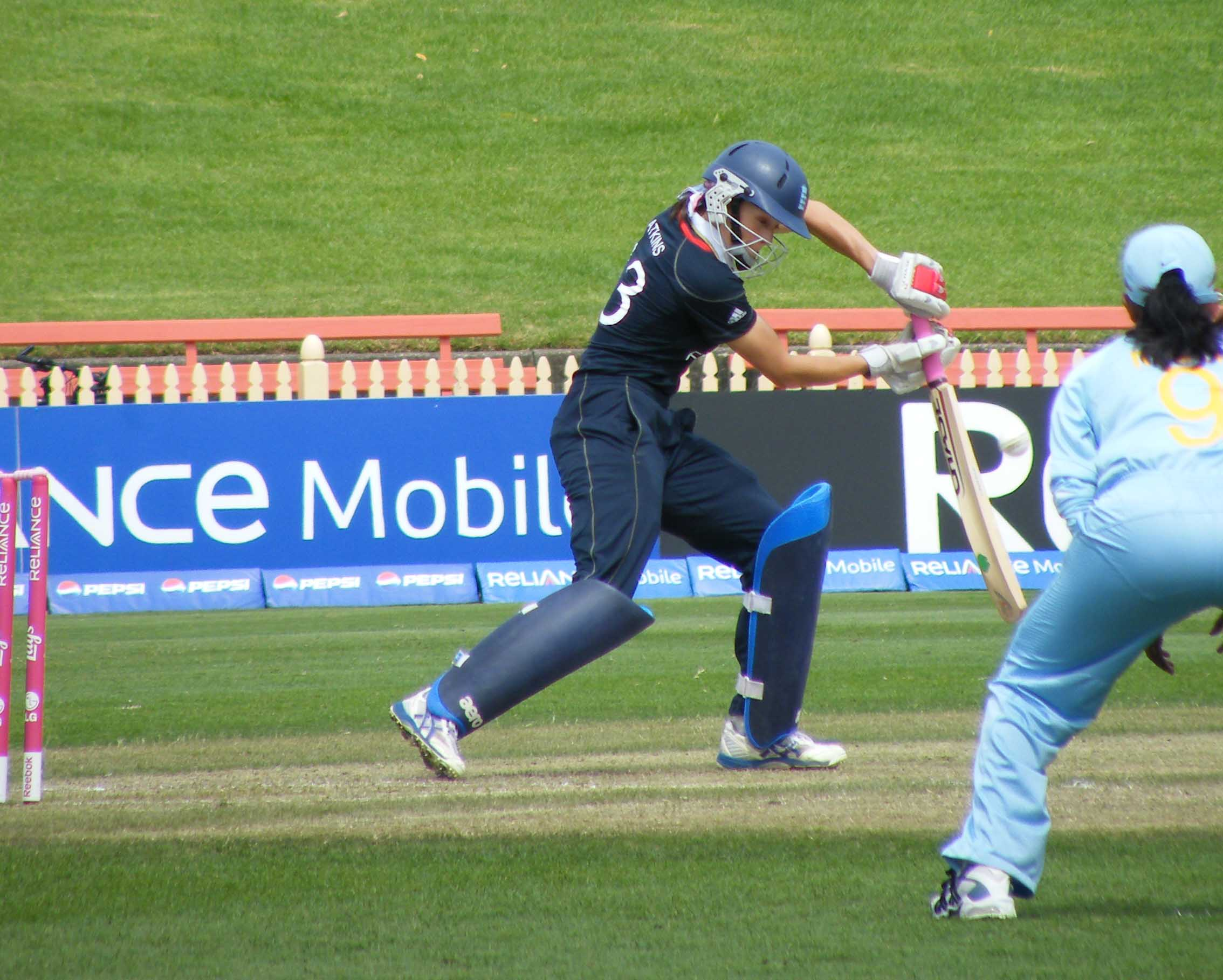 Caroline Atkins of England - ICC Women's Cricket World Cup, Sydney, March 2009.